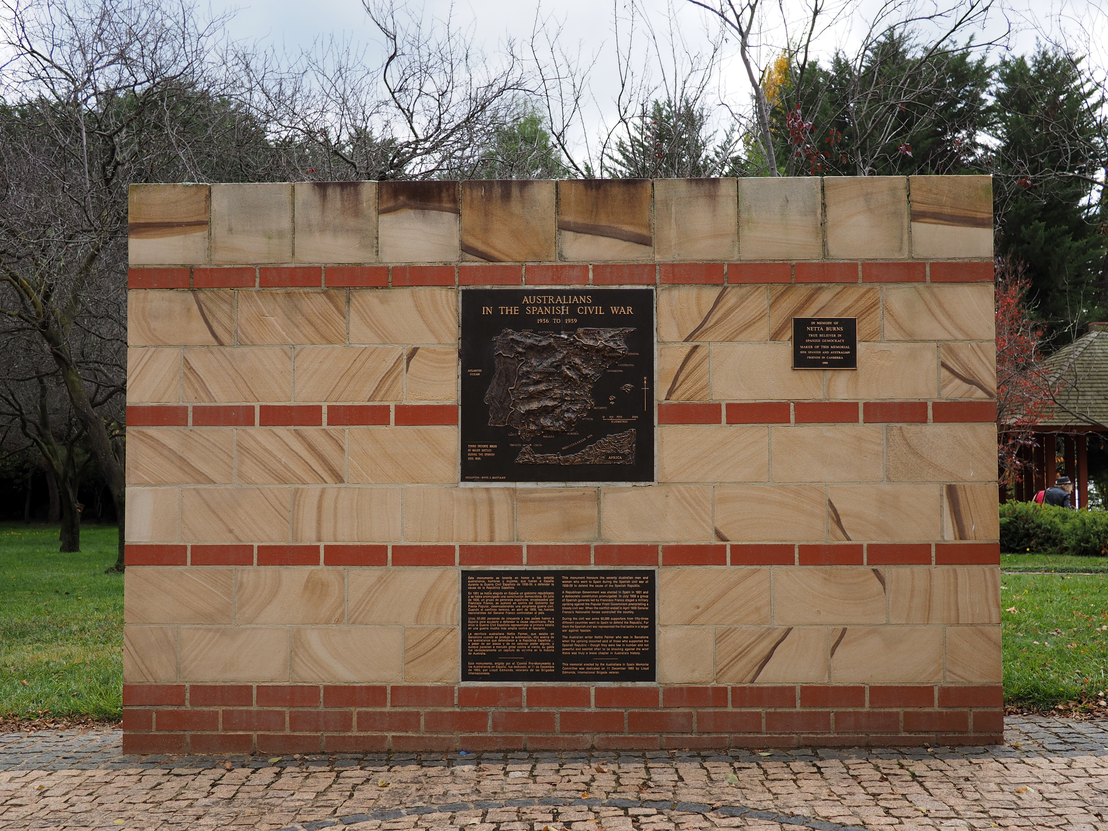 The Spanish Civil War Memorial in Lennox Gardens, Canberra. The memorial commemorates the 70 Australians who fought in the war.